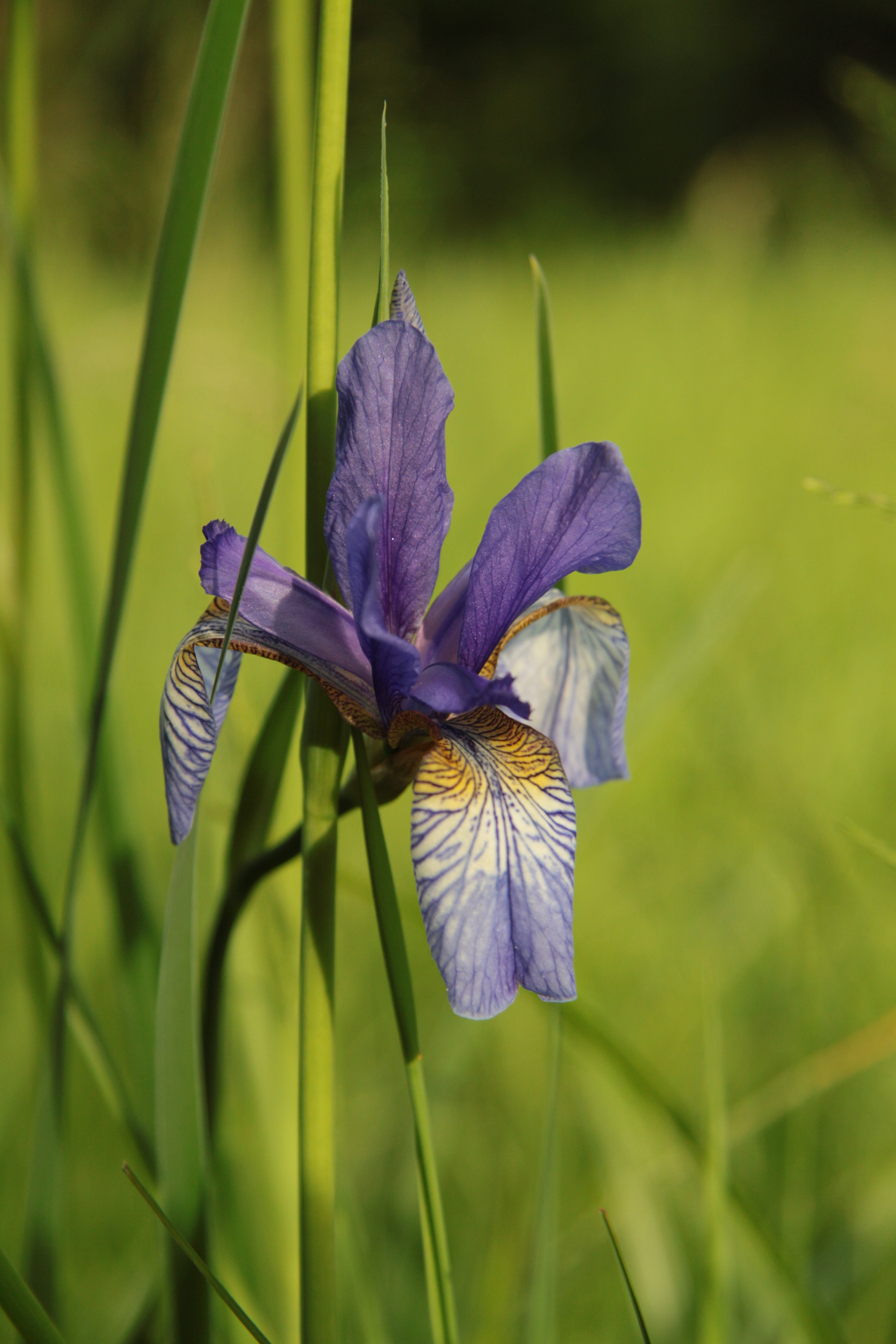 Natural monument Mastnice near Hracholusky, Prachatice District, Czech Republic - Google Maps - Google Earth